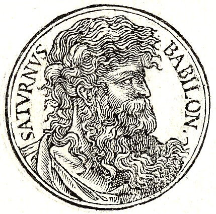 Nimrod is a Mesopotamian monarch mentioned in the Book of Genesis, who also figures in many legends and folktales.